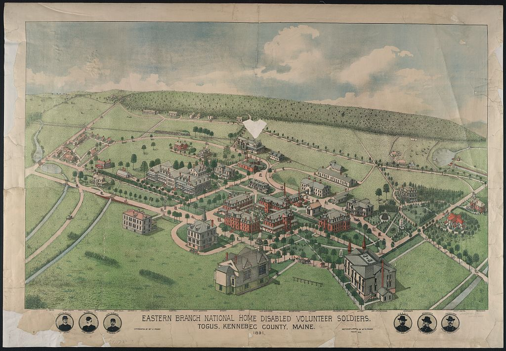 Title: Eastern branch national home disabled volunteer soldiers. Togus, Kennebec County, Maine. 1891 Physical description: 1 print : chromolithograph ; 30 1/16 x 43 5/8 in. Notes: Copyrighted by Wm. H. Prince.; sketched and drawn by Wm. H. Prince, Togus, Me.; Title from item.